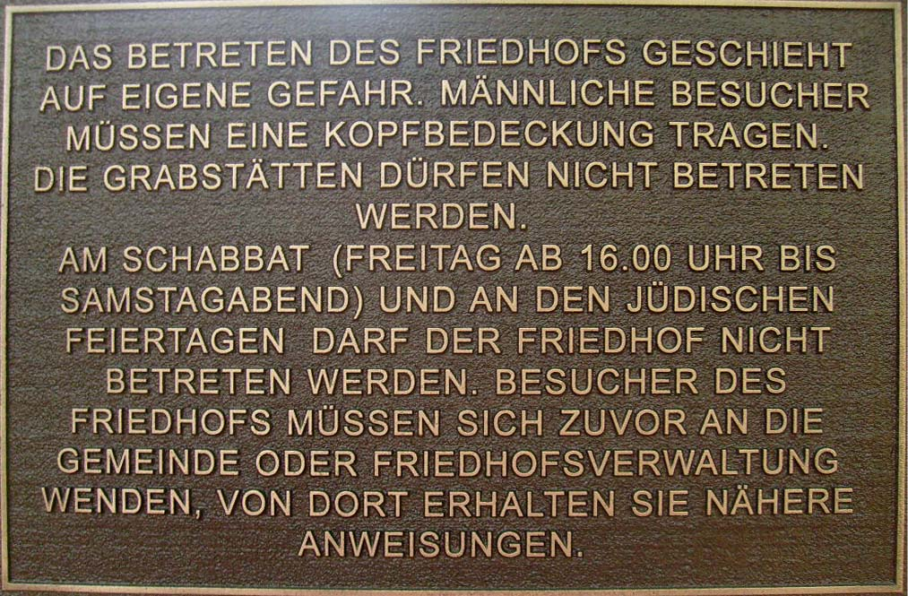 sign at the entrance door to the Kuppenheim Jewish cemetery